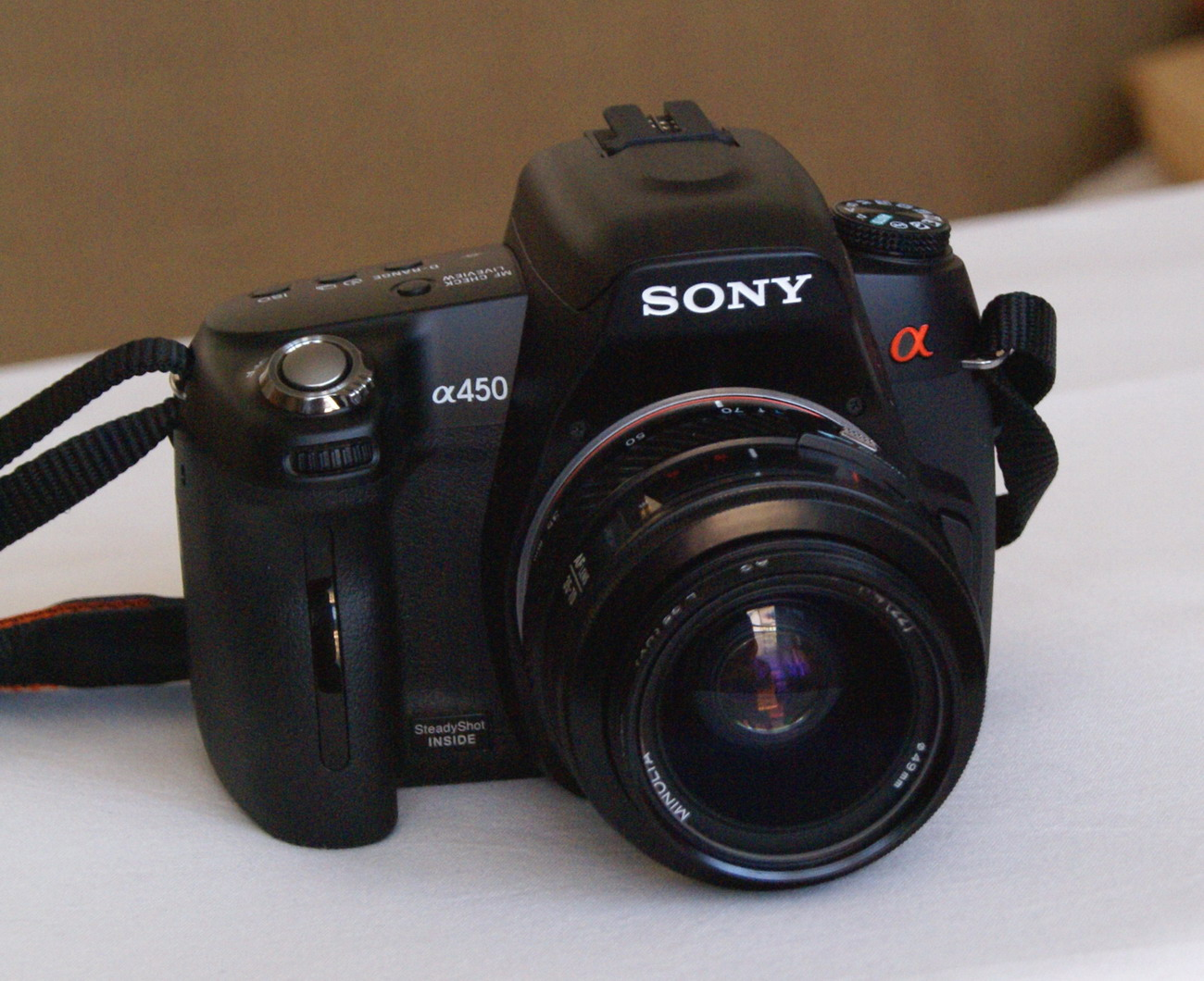 Sony DSLR-A450 digital SLR camera.